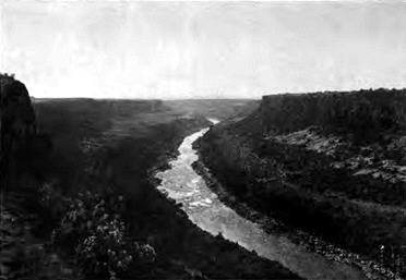 Snake River Scene